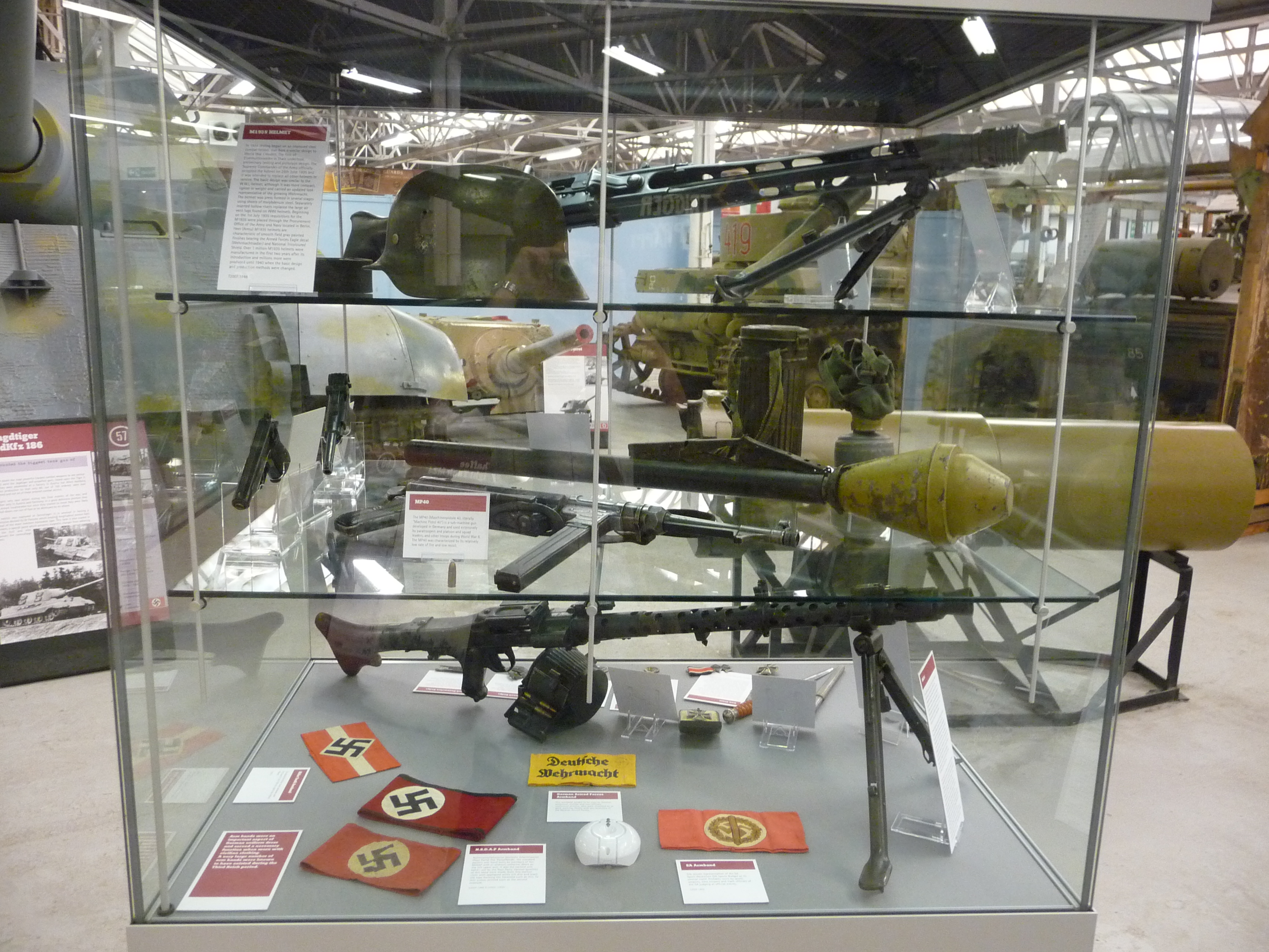 Selection of guns